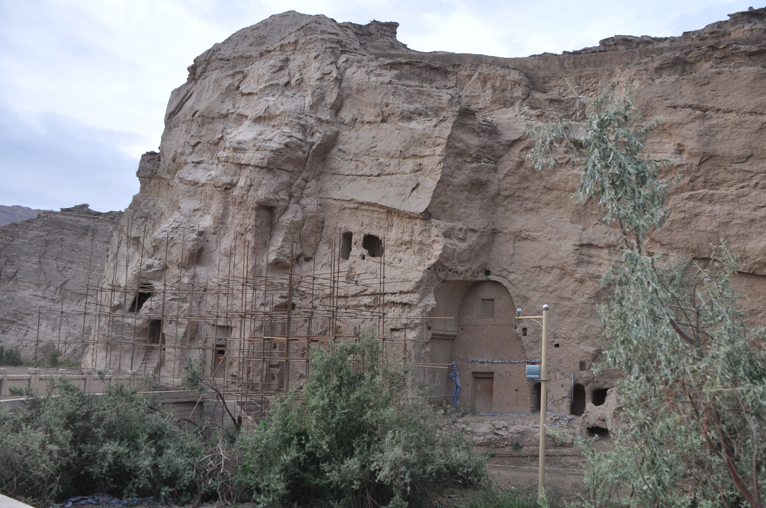 Kumtula Grottoes 1 - Overview, Kuqa, Xinjiang, China